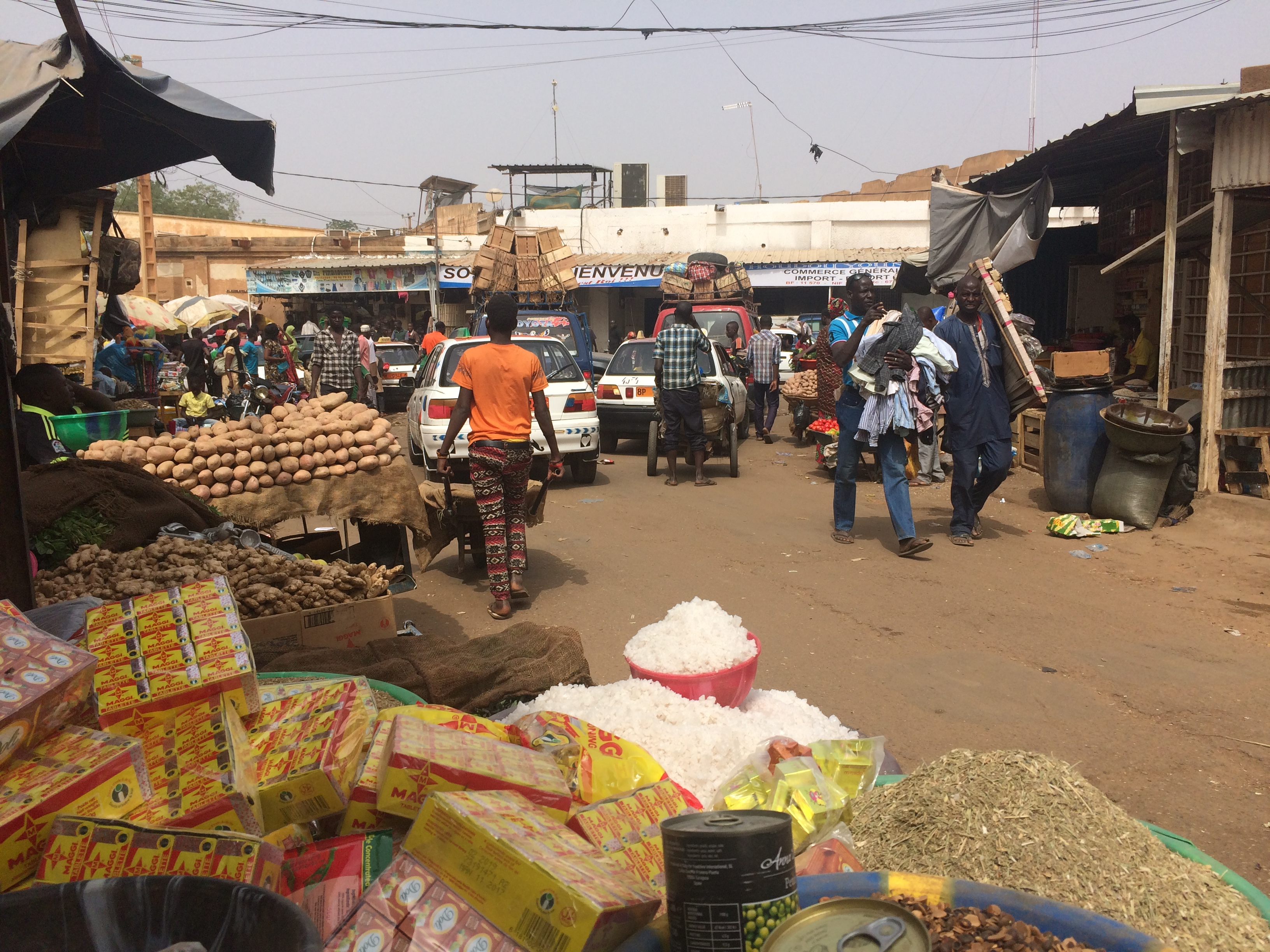 Rue du Festival (Rue NB-30) in Niamey, Niger (Niamey Bas, Petit Marché neighborhood)